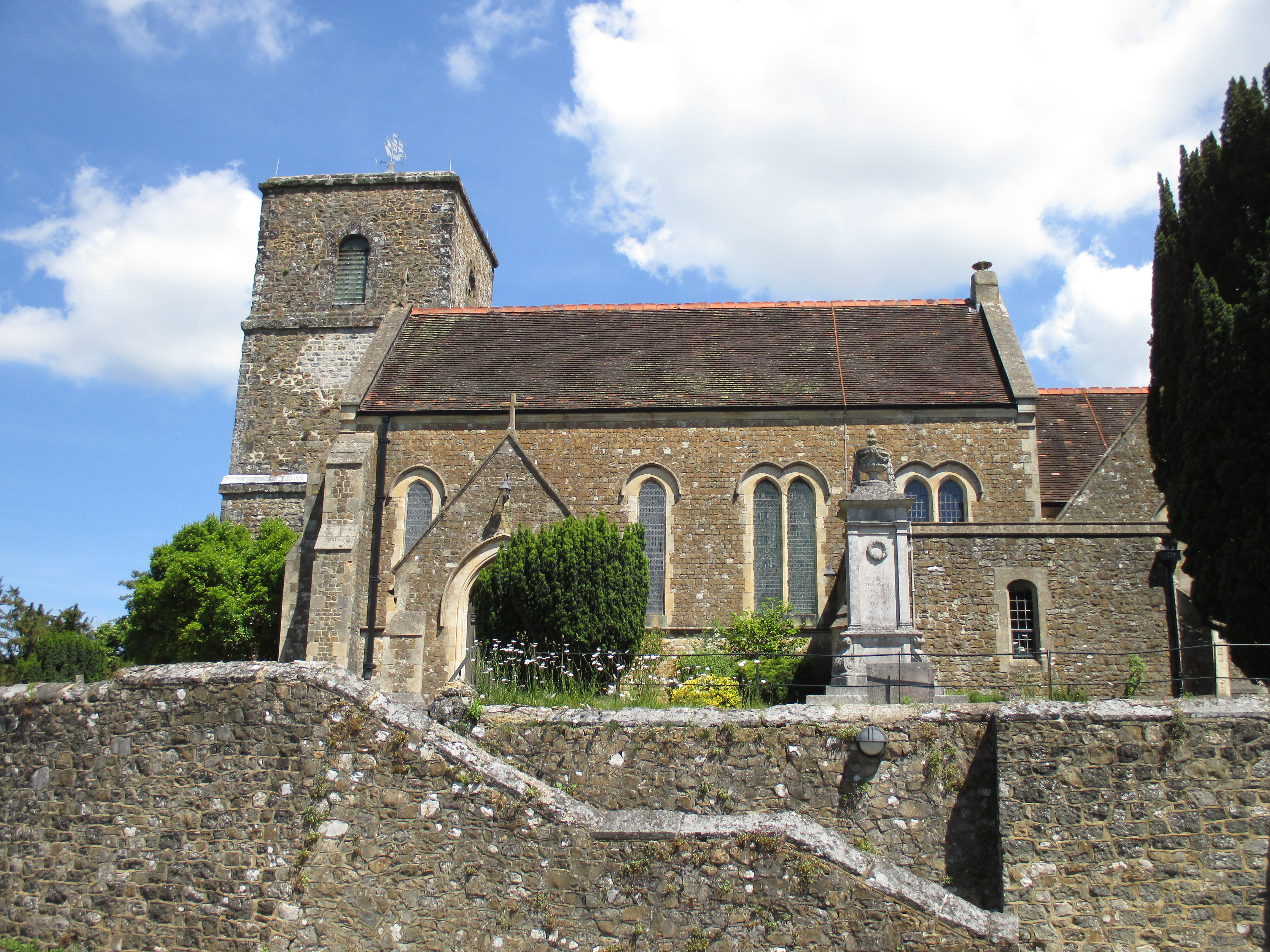 St Mary the Virgin Church, Storrington, West Sussex, seen from the south.